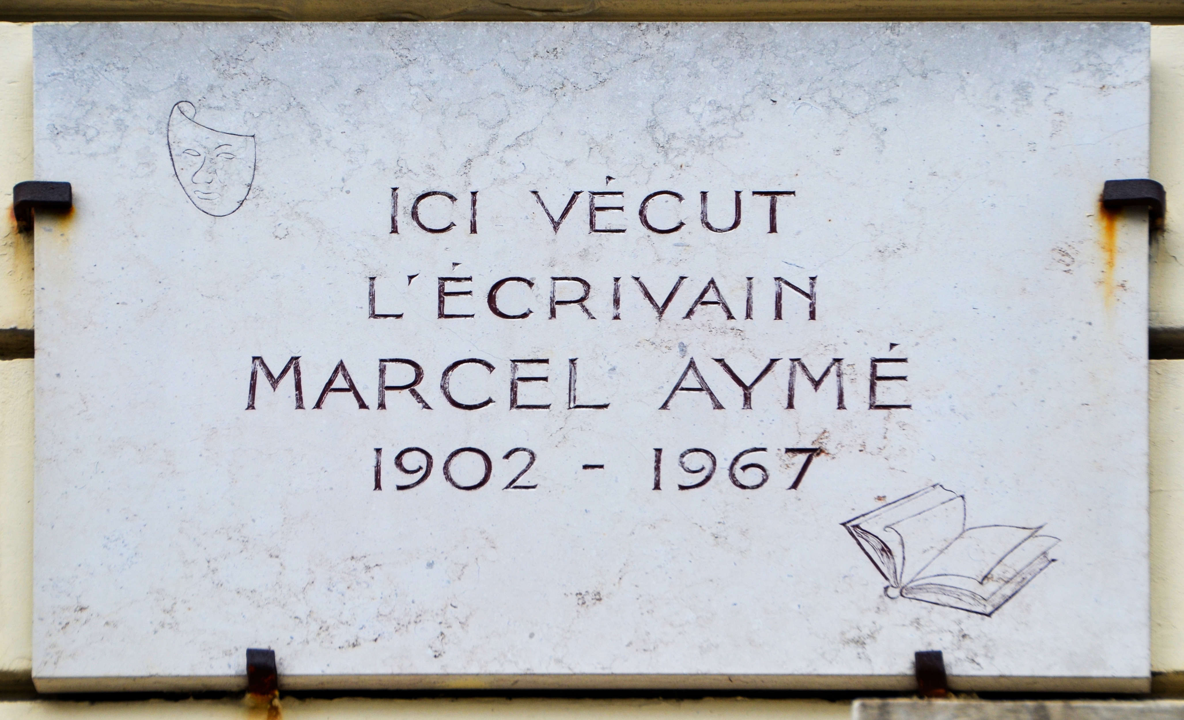 Read more about him here